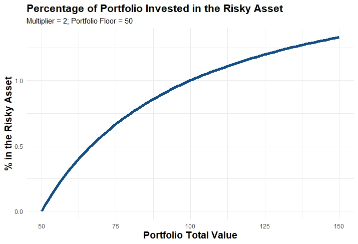 CPPI portfolios allocate more to the risky asset as the portfolio value grows and less as it shrinks. This means the investor is selling as risk assets lose value and buying as they gain. Note that leverage may be employed.